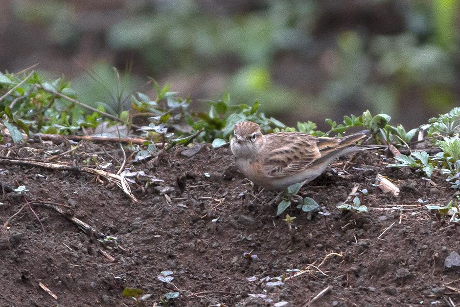 The species Greater Short-toed Lark had been photographed from Khangchendzonga National park West Sikkim India 31.03.2016.